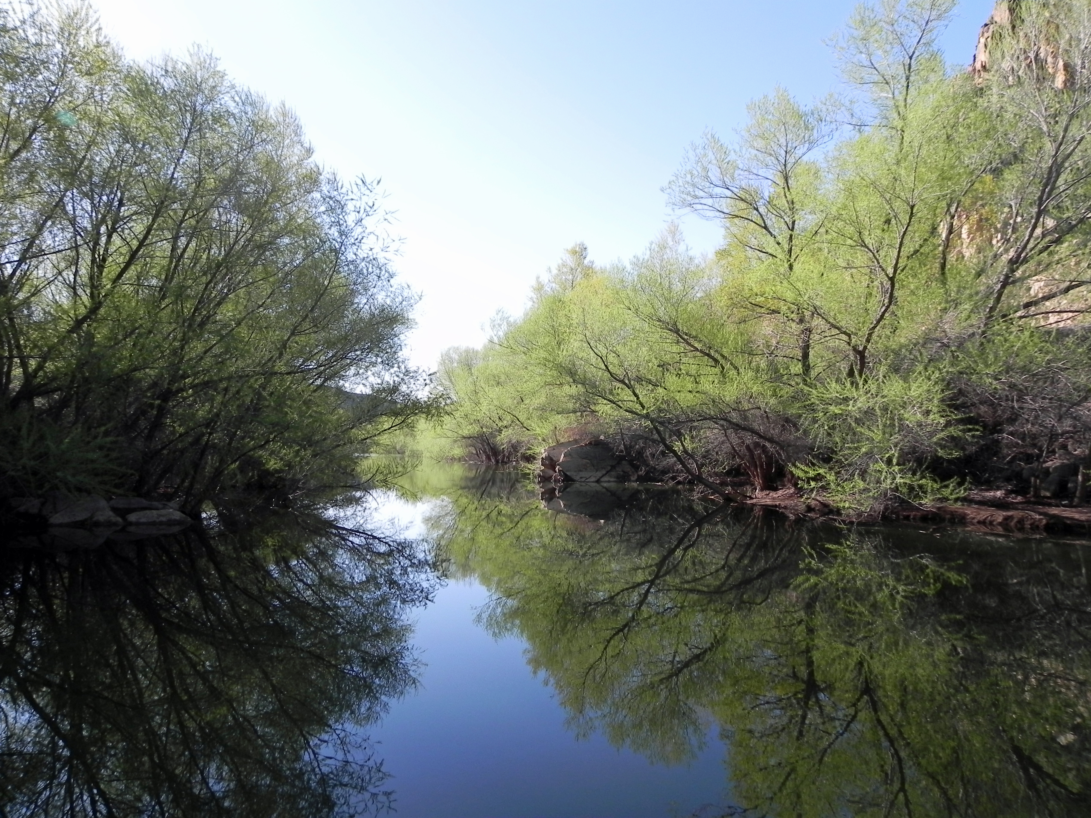 The upstream end of Quail Creek Reservoir in Hurricane, Utah where Quail Creek enters the lake